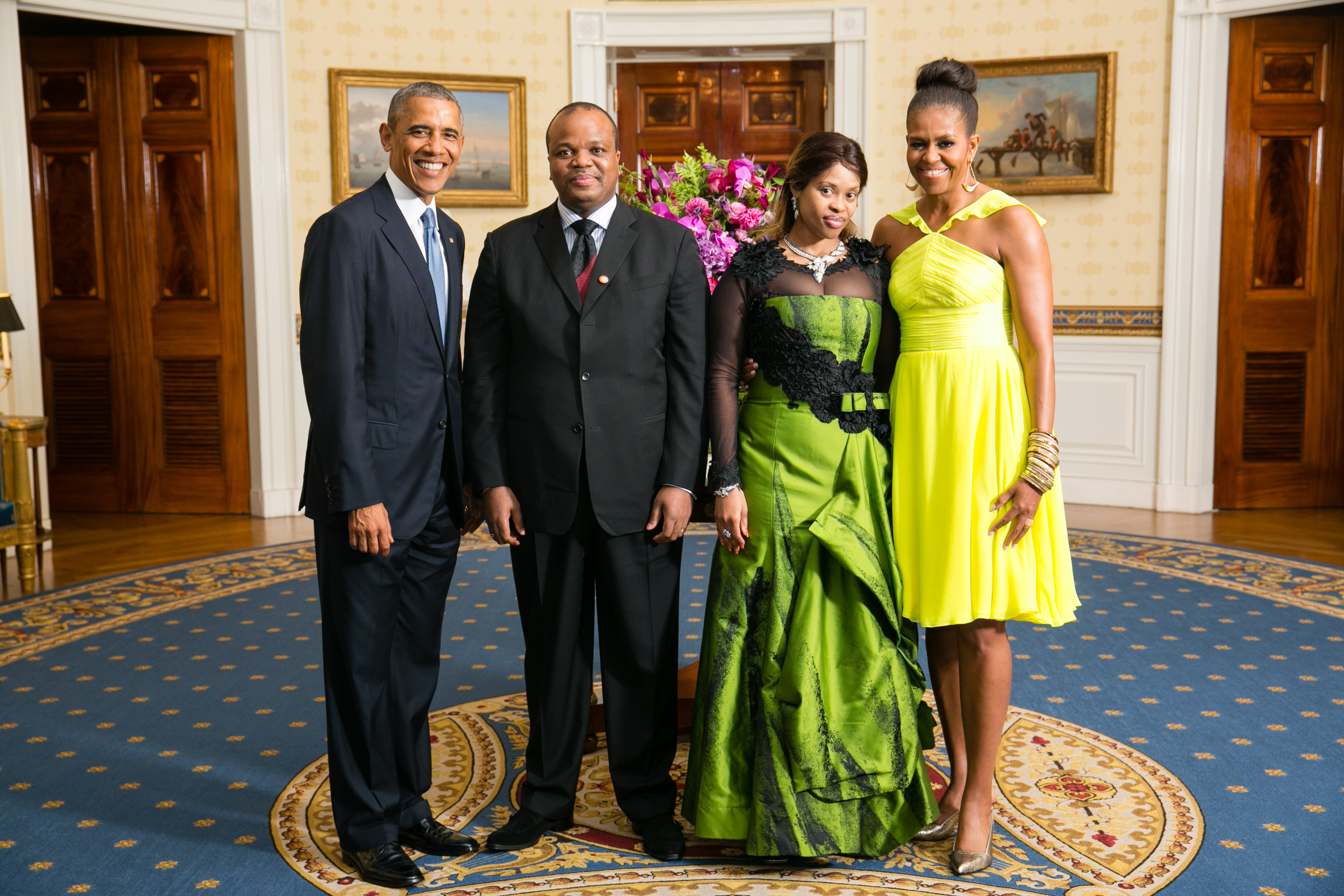 President Barack Obama and First Lady Michelle Obama greet His Majesty King Mswati III, Kingdom of Swaziland, and Her Royal Highness Queen Inkhosikati La Mbikiza, in the Blue Room during a U.S.-Africa Leaders Summit dinner at the White House, Aug. 5, 2014. [Official White House Photo by Amanda Lucidon/ This official White House photograph is in the public domain from a copyright perspective, so while restrictions such as personality or privacy rights may apply, in general, manipulations are allowed.]